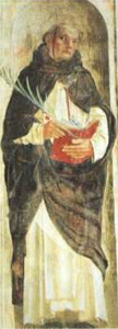 Antonio Pavoni, "beato" of Catholic church (1325-1374)